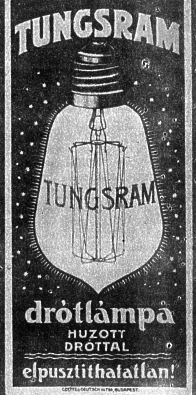 Poster of the Tungram Works about tungsten fillament with inert gas in Hungary in 1904. incorrect, see notes below